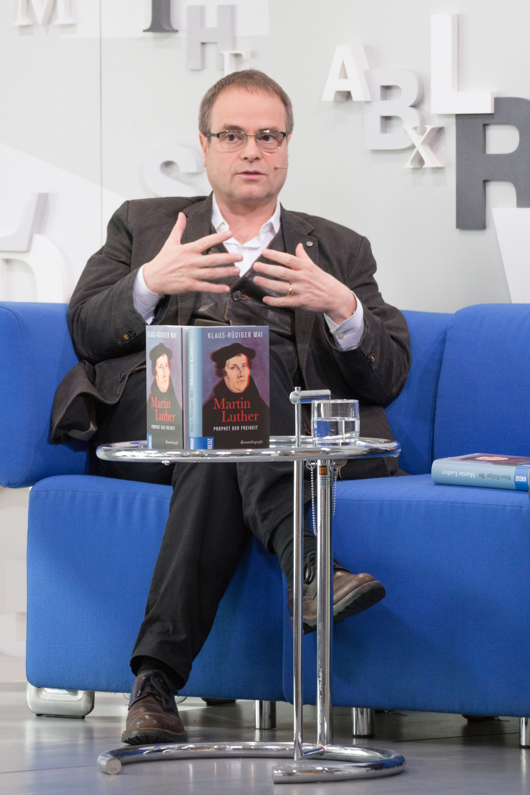 The writer Klaus-Rüdiger Mai during the Frankfurt Book Fair 2014